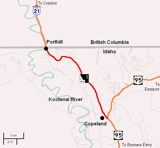 A map showing the route of the Idaho State Highway 1. This map may be incomplete, and may contain errors. Don't rely solely on it for navigation.